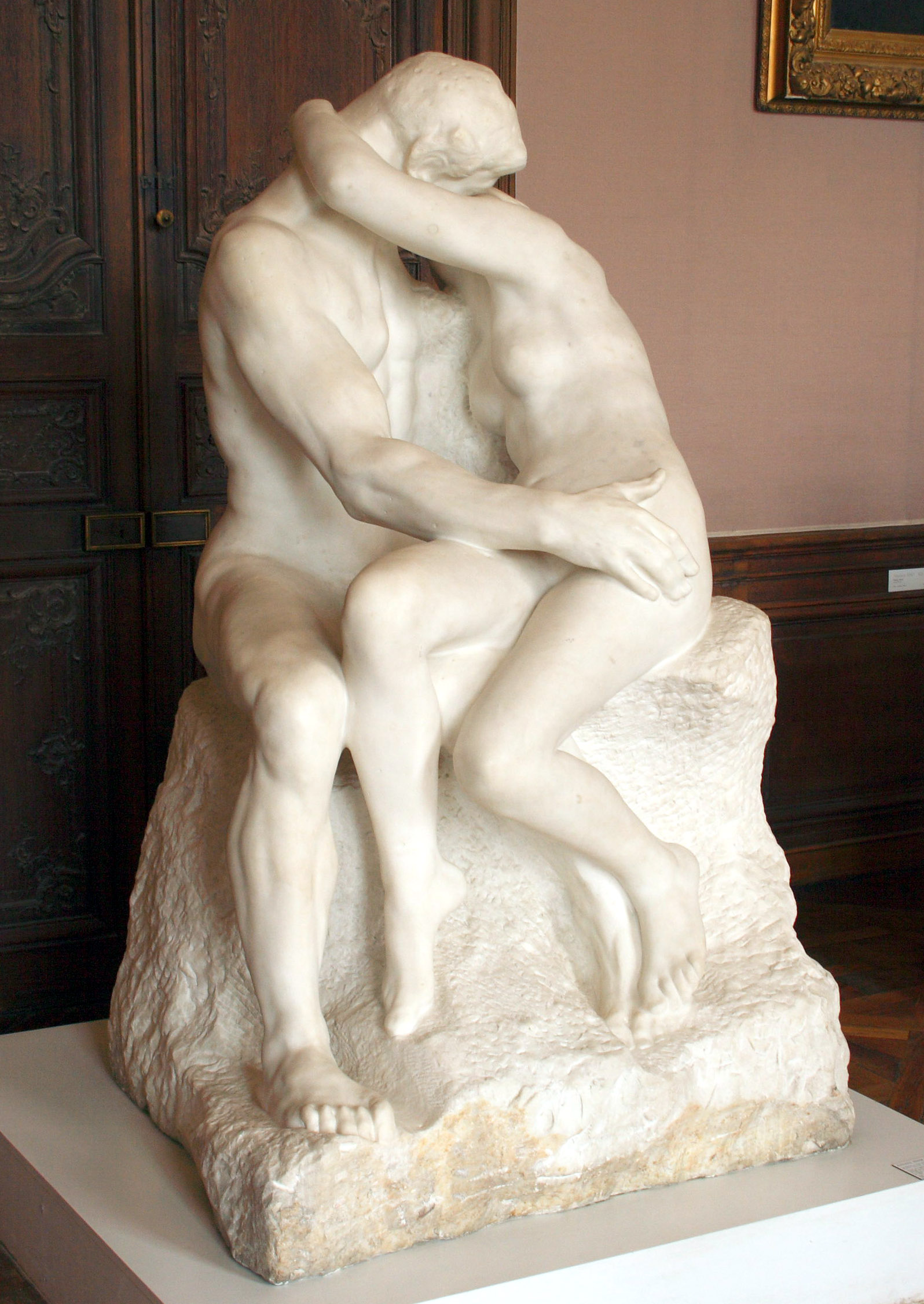 Sculpture of Rodin in the Rodin Museum, Paris